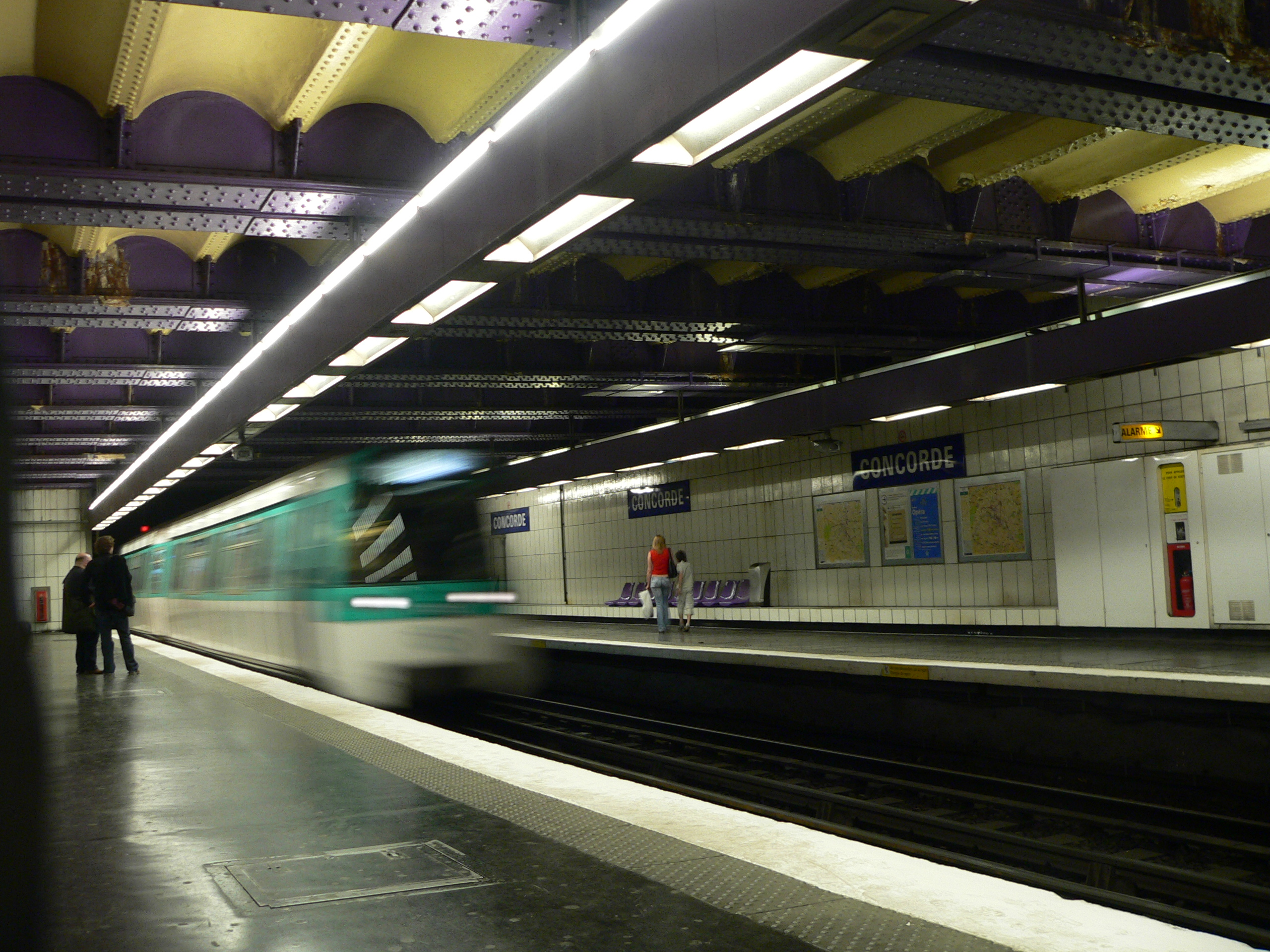 Paris Metro, Station Concorde, line 8